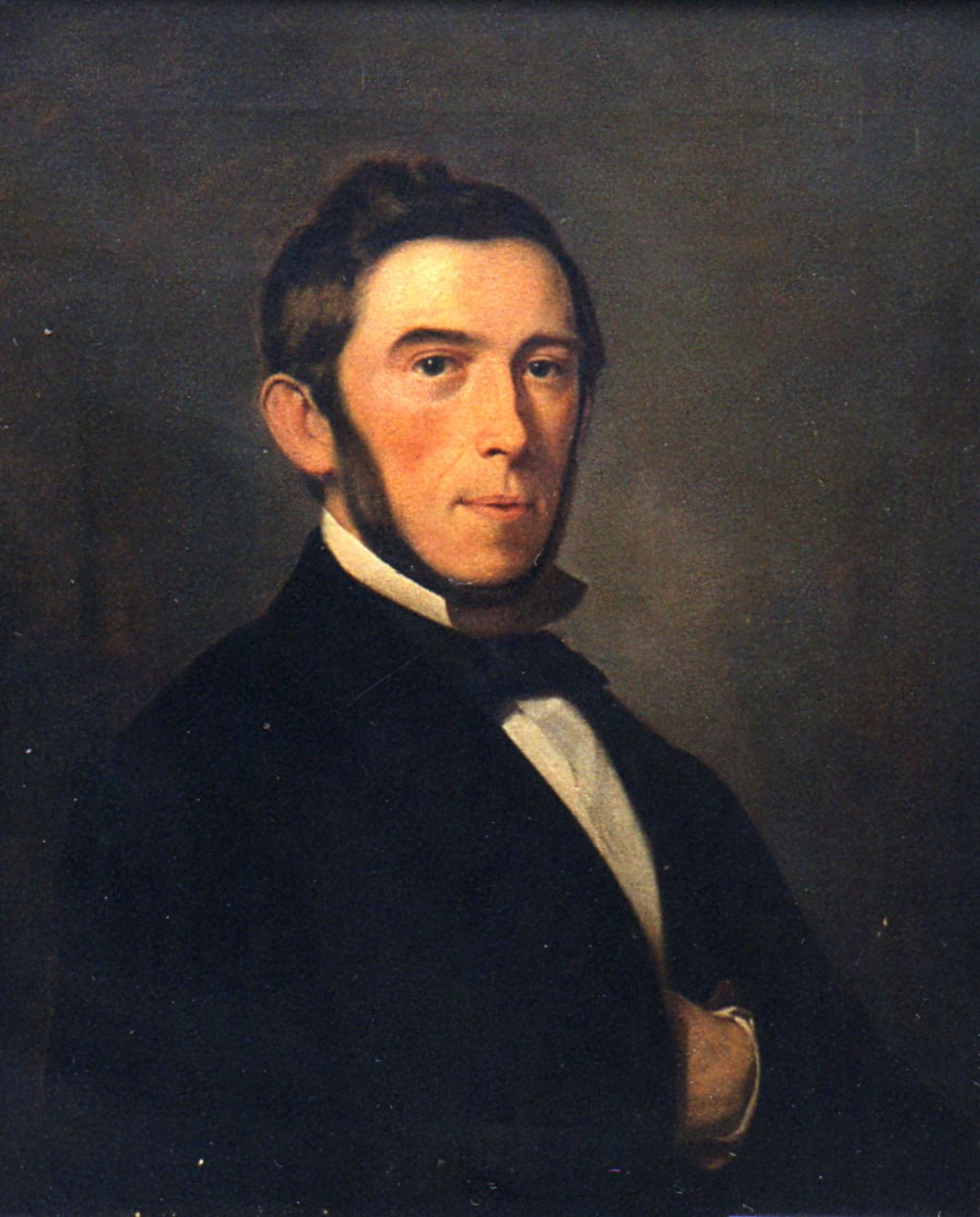 Eduard Wilhelm (E.W.) Sievers, 1820-1894, German Shakespeare researcher